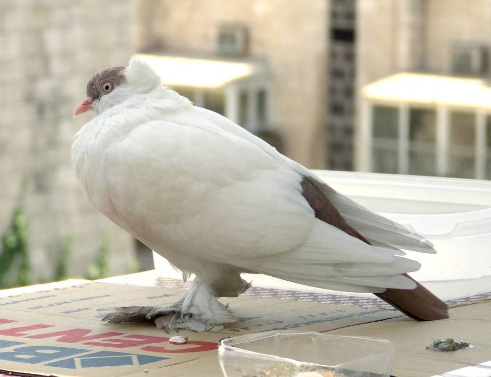 Muffed helmet pigeon variety (also known as "Polish hemet", "Krymka Polska"), sitting on bird table.